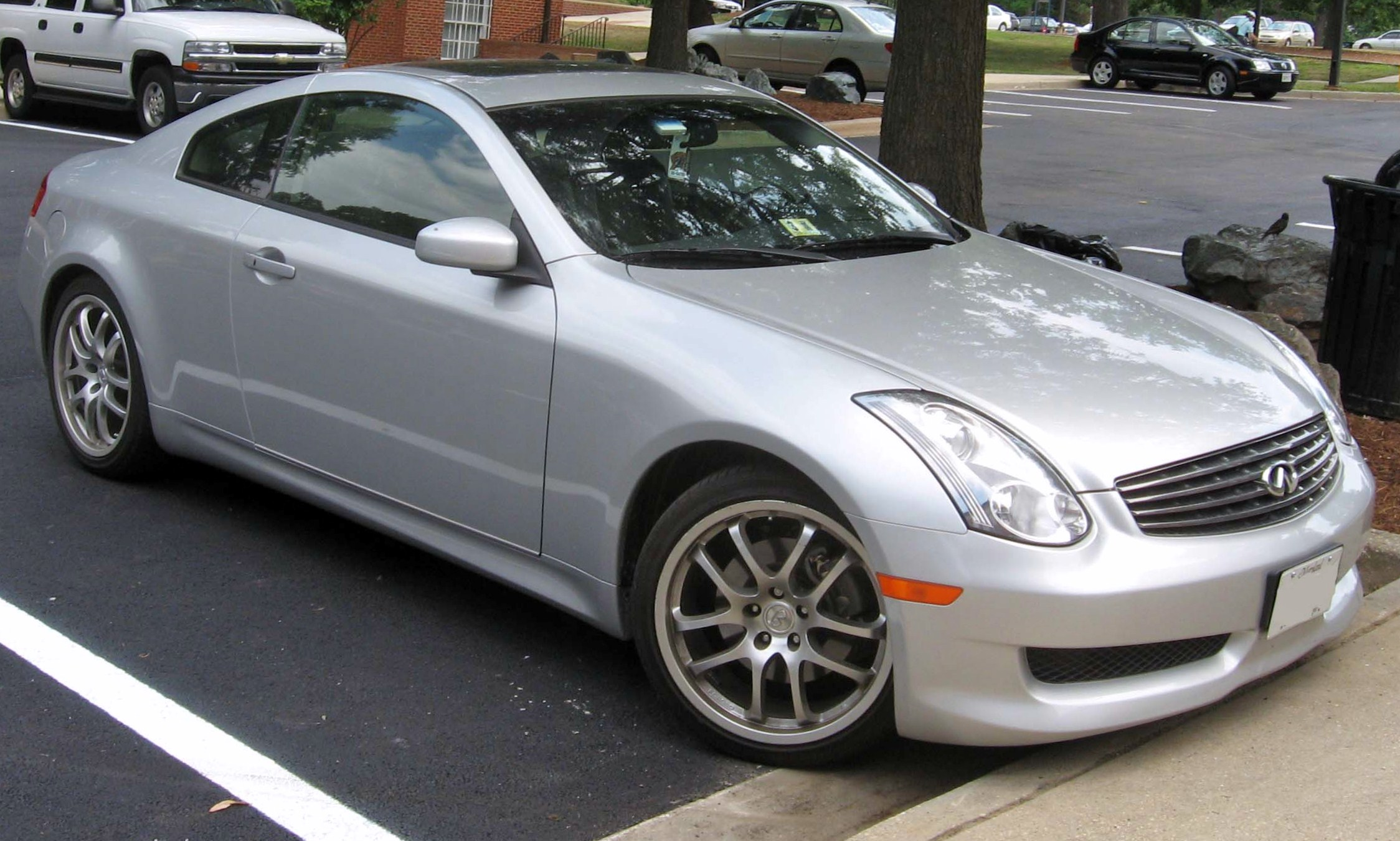 2006 Infinti G35 photographed in USA.